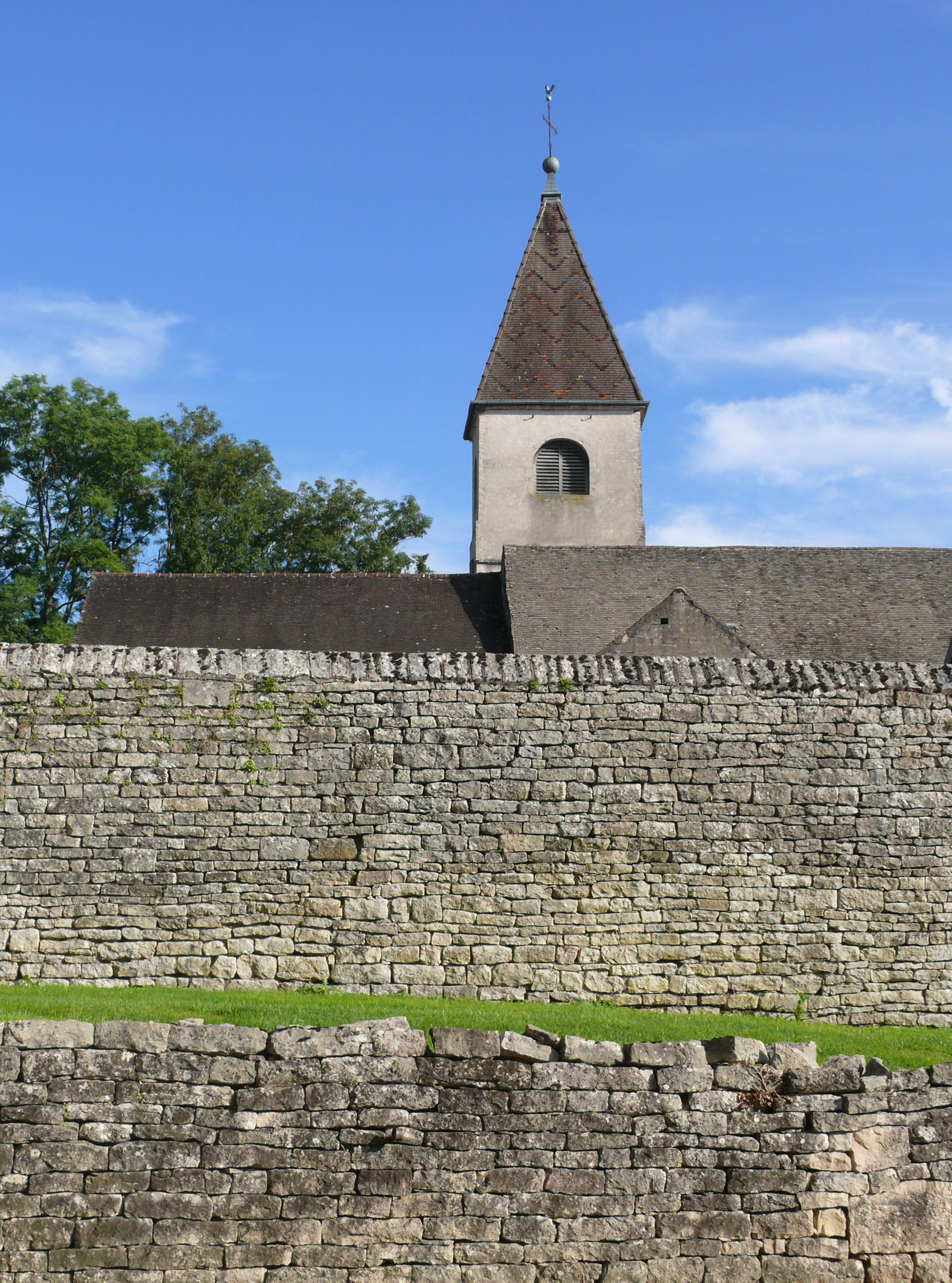 Church of Fondremand (Haute-Saône, France)